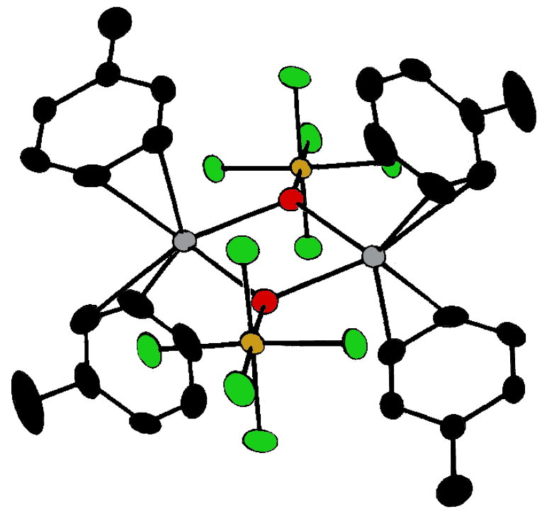 [AgOTeF5−(C6H5CH3)2]2 molecule. Colors: black - C, green - F, red - O, brown - Te. (1985). "Preparation and characterization of silver(I) teflate complexes: bridging OTeF5 groups in the solid state and in solution". Inorg. Chem. 24 (25): 4307–4311.